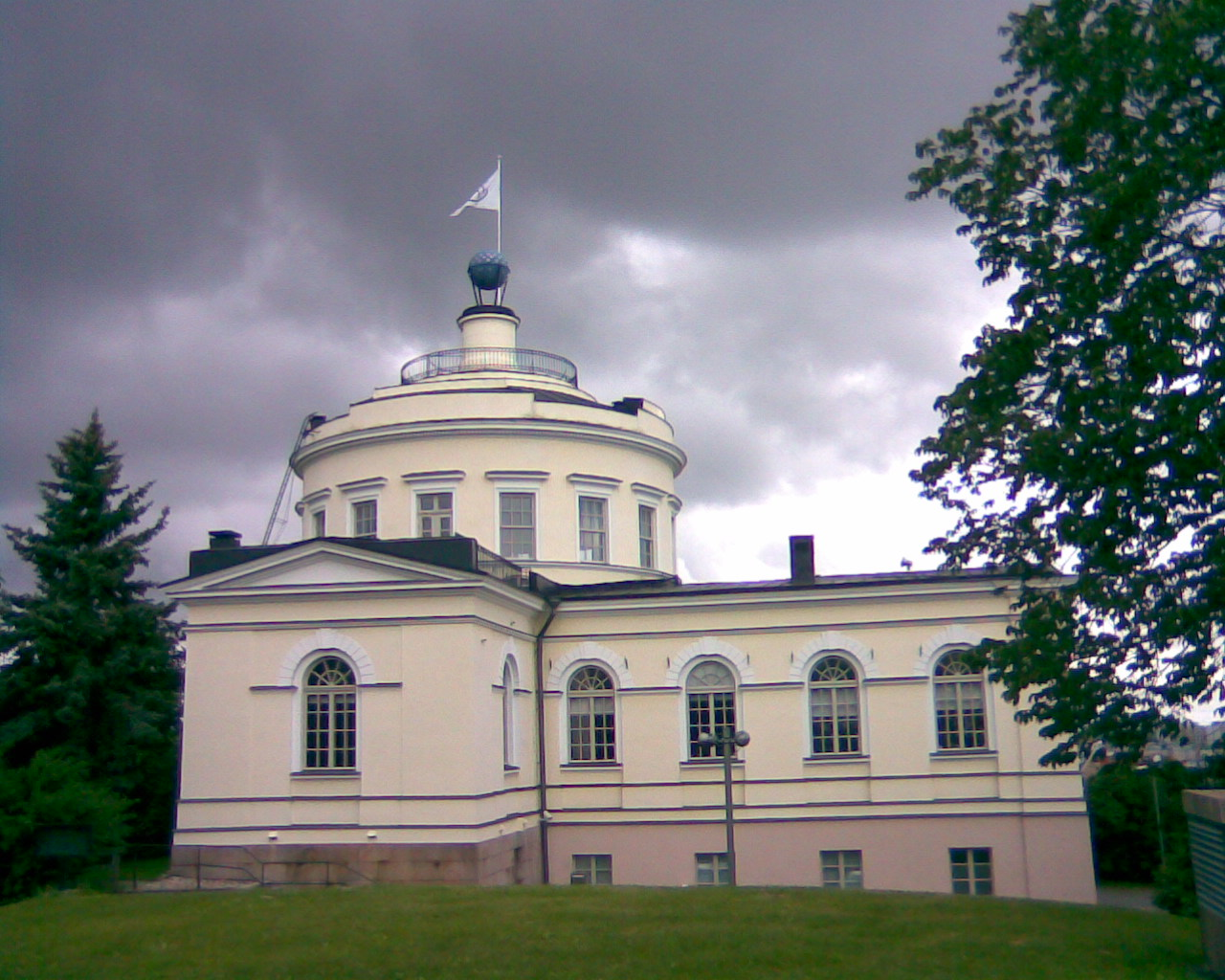 The old observatory in Turku, Finland, inaugurated in 1819.